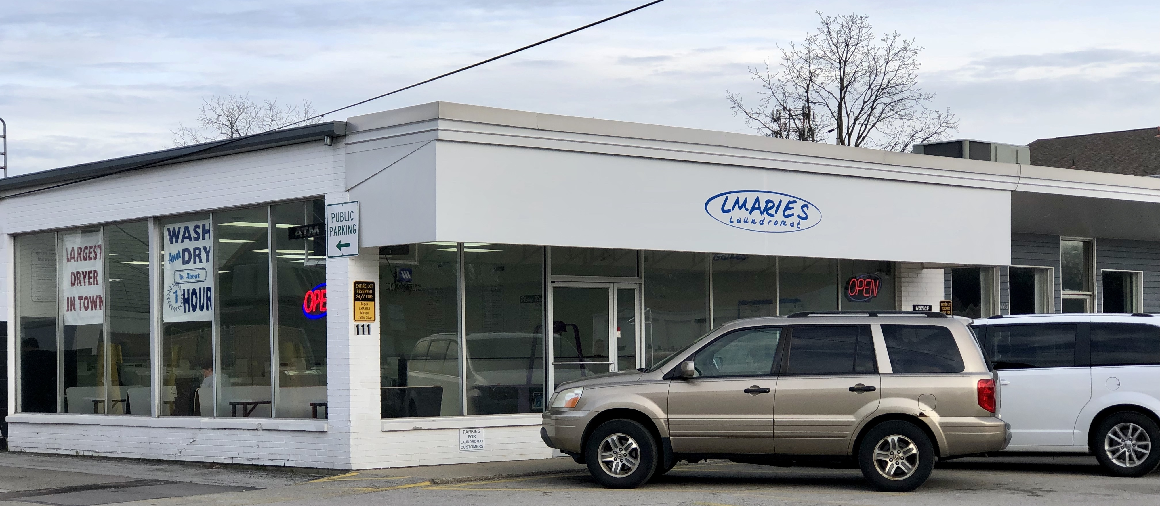 Lmaries Laundromat in Bowling Green, Ohio. This laundromat is heavily automated.